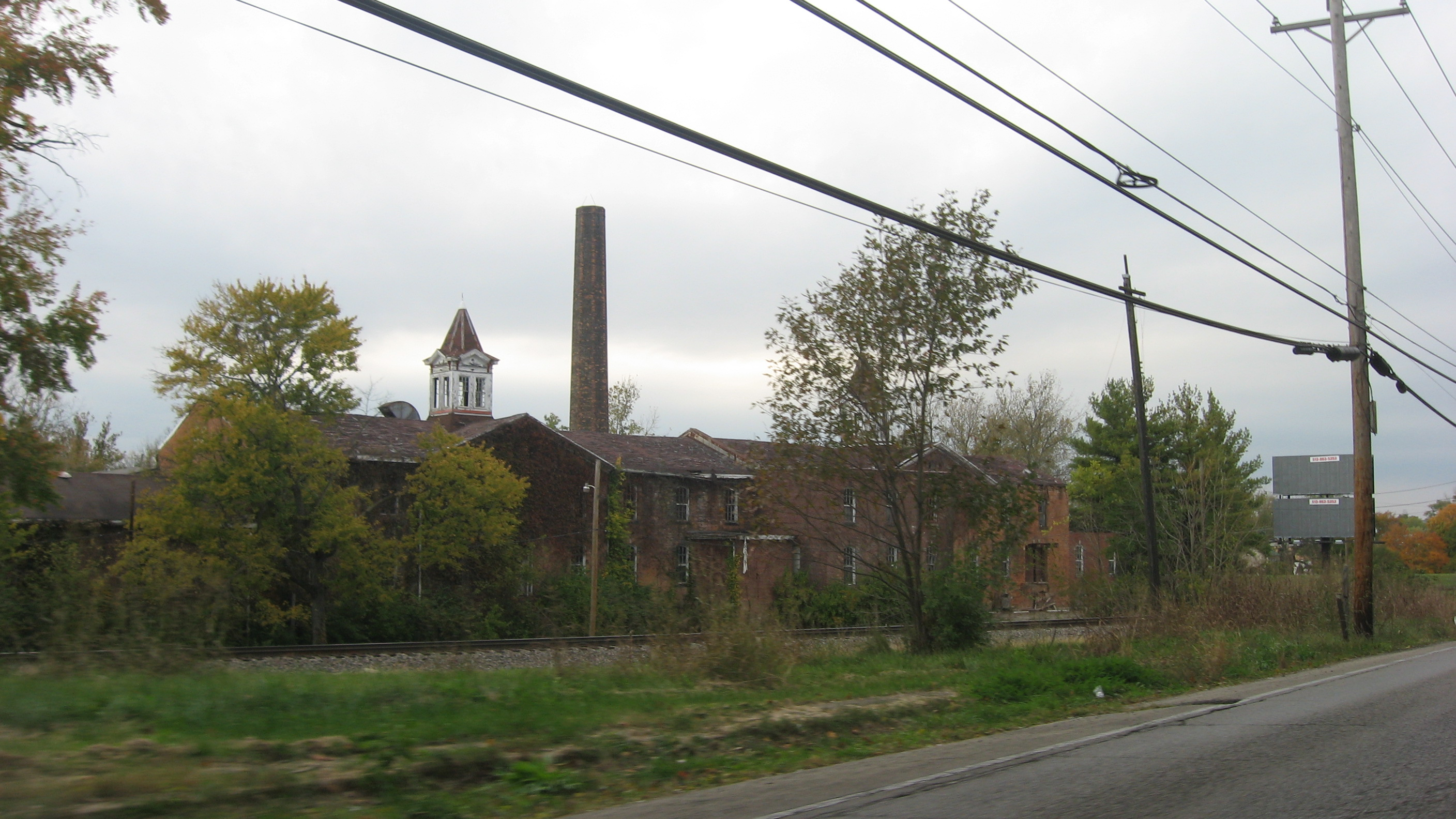 One of the primary buildings in the Harding-Jones Paper Company District, located on the western side of Main Street at Excello, Ohio in Lemon Township, Butler County, Ohio, United States. The historic district is listed on the National Register of Historic Places.